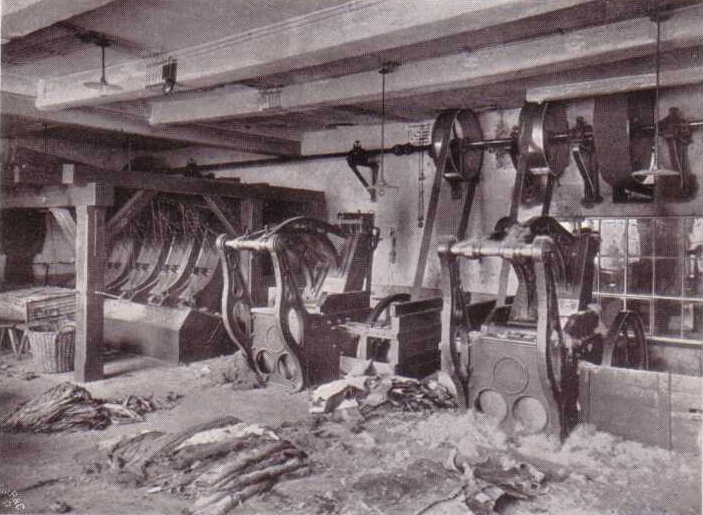 Fur Fuller